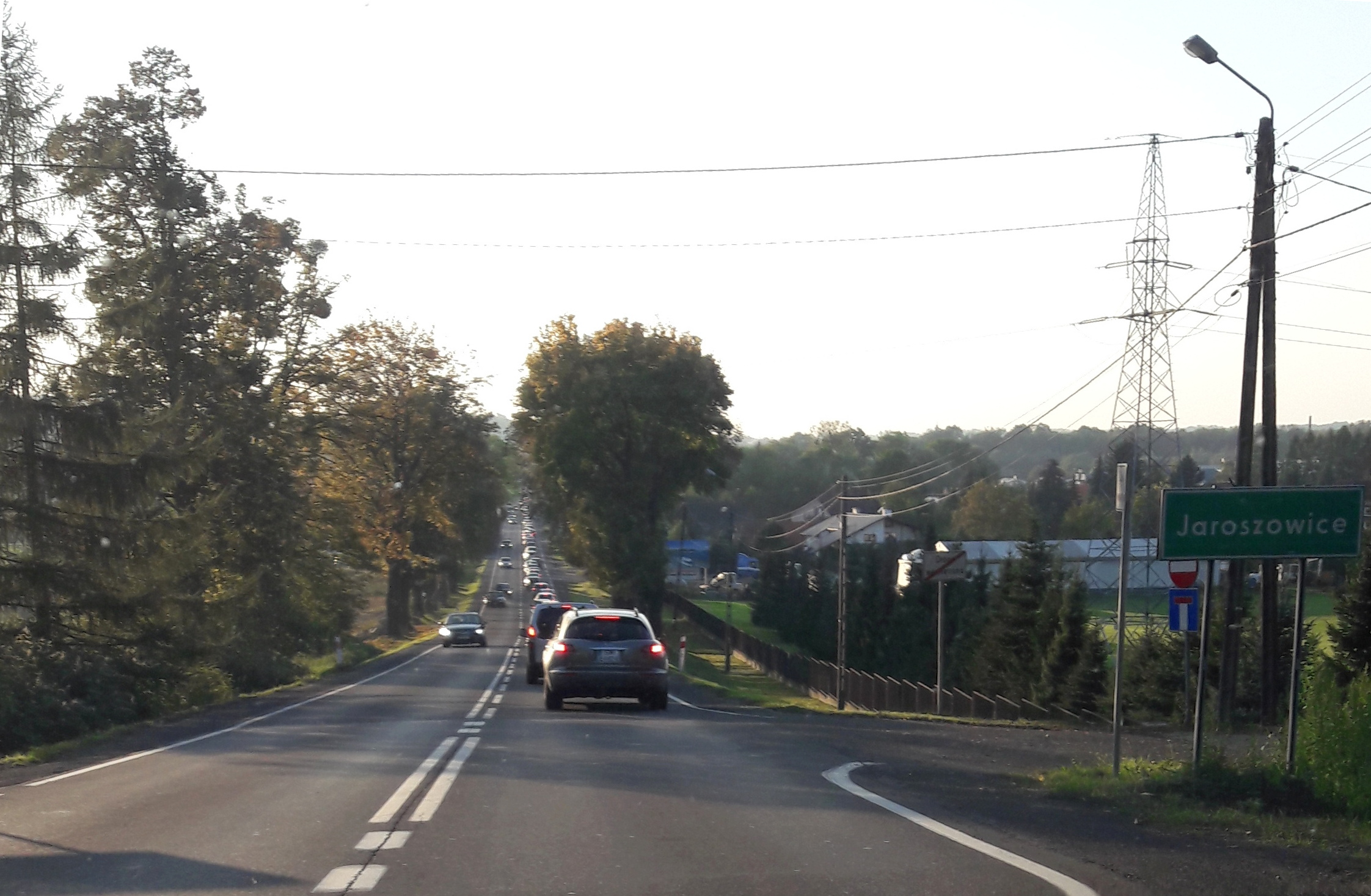 Jaroszowice, DK57